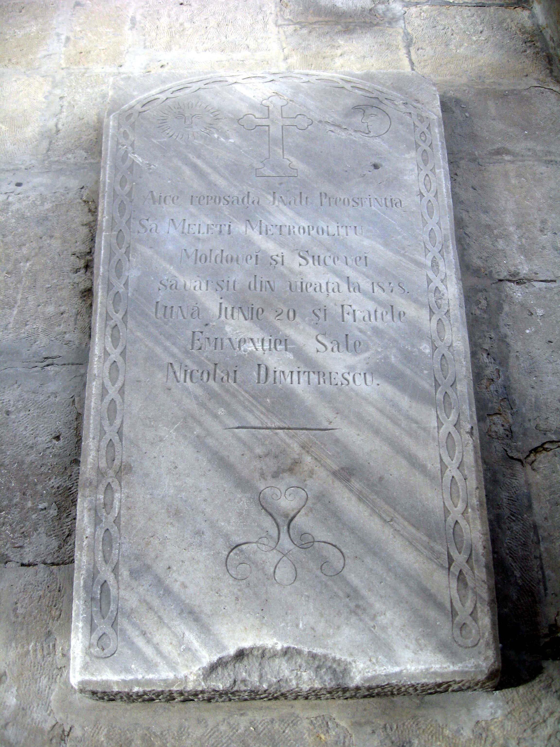 St.George Church in Iași (old Metropolitan Cathedral)